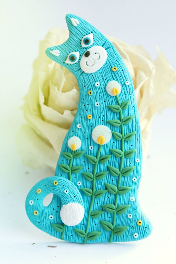 Cat polymer clay